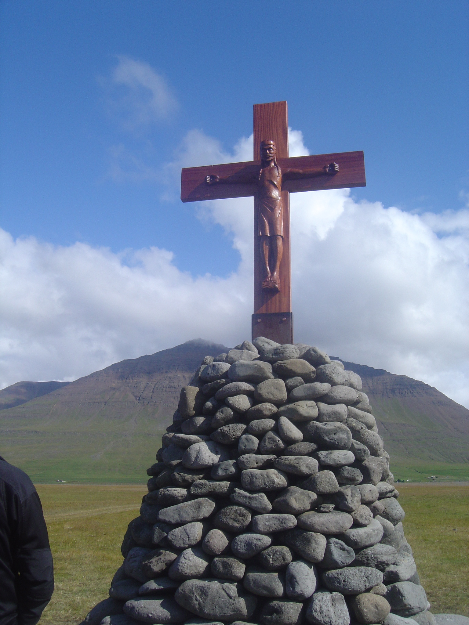 A memorial to the Icelandic chieftain Brandur Kolbeinsson, erected at the site where he was executed after the Battle of Haugsnes, April 19, 1246.